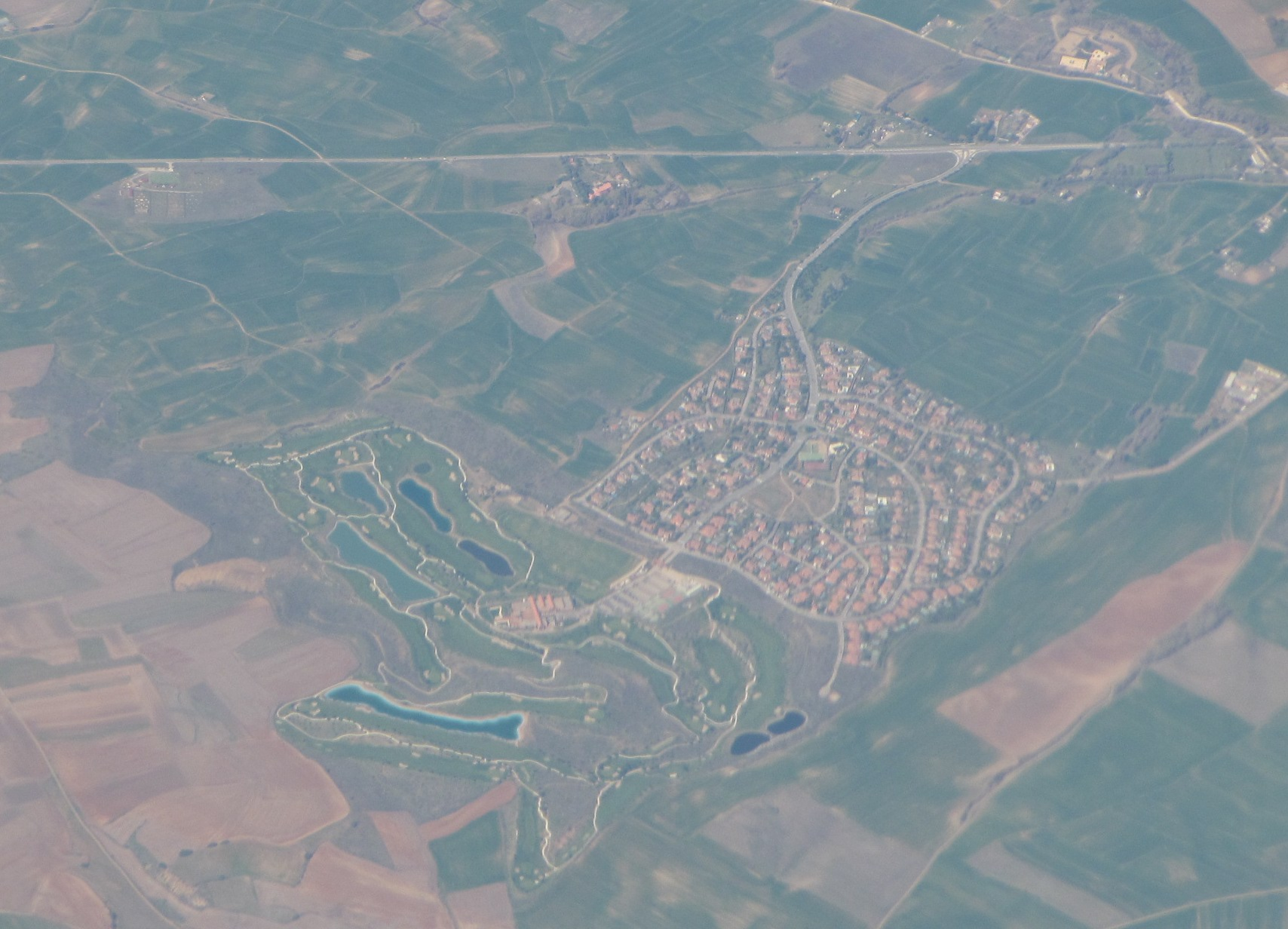 Valdeolmos-Alalpardo (golf resort)